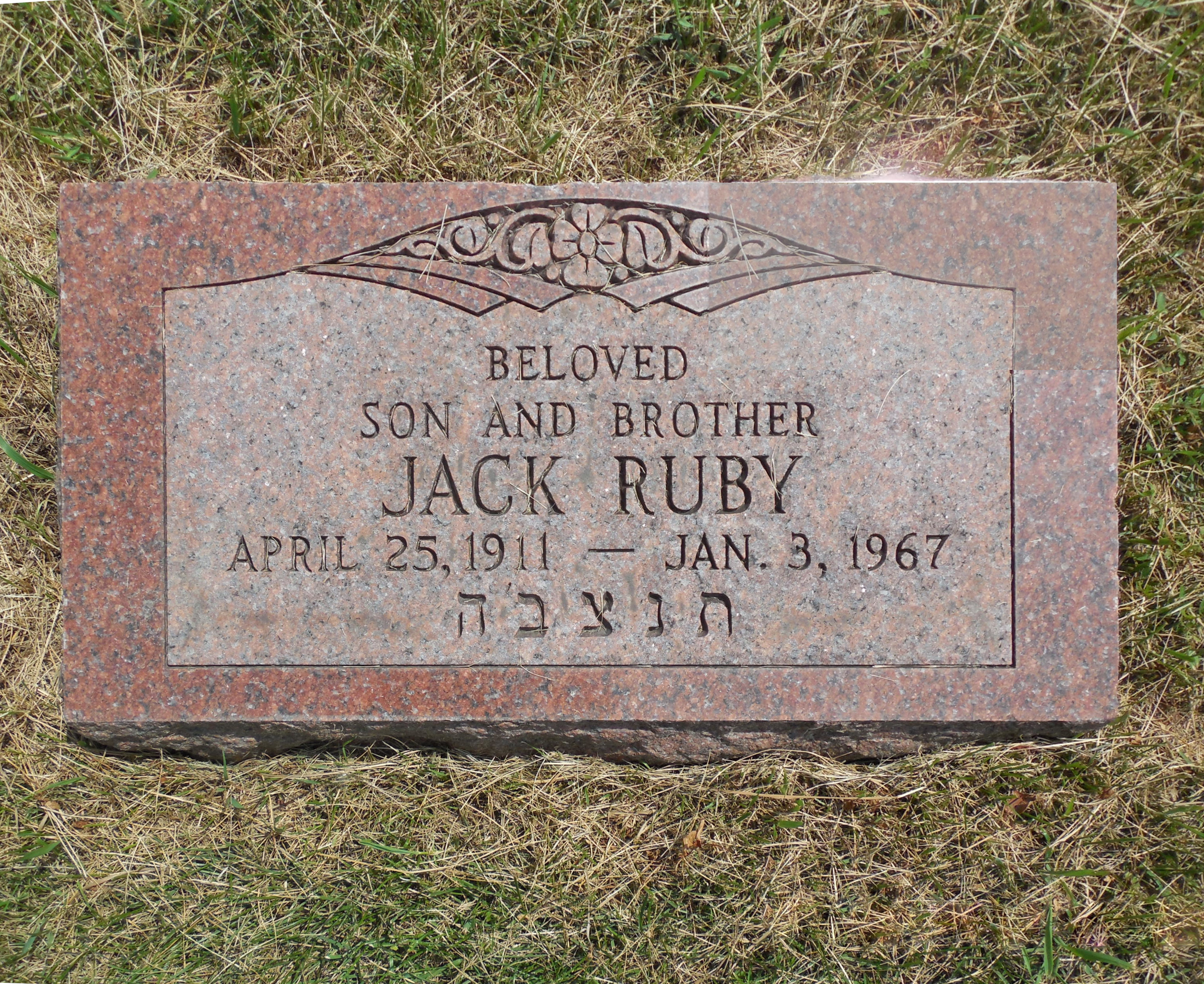 Jack Ruby Resting Place, Westlawn Cemetery